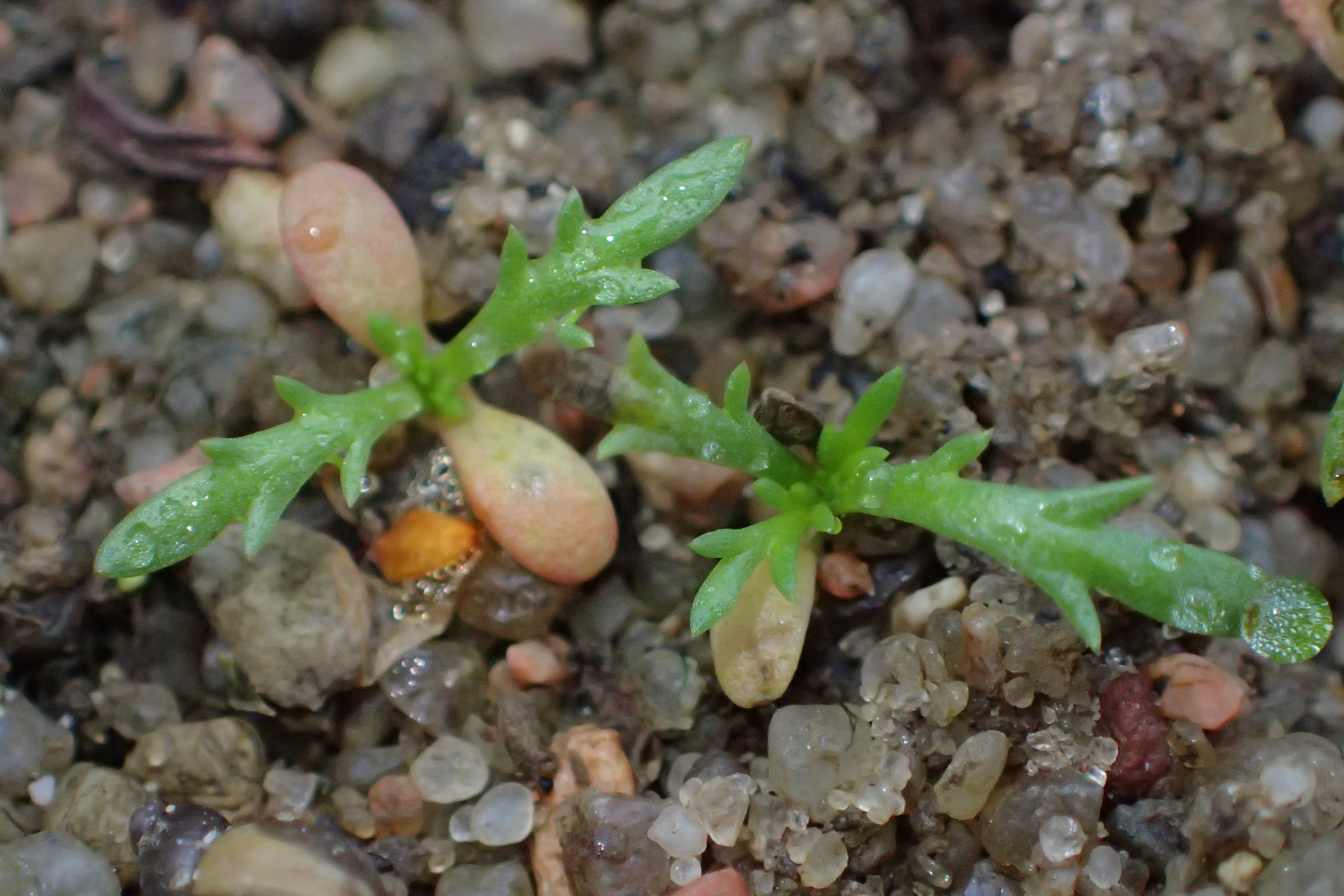 Tripleurospermum inodorum seedling in Słupsk, N Poland